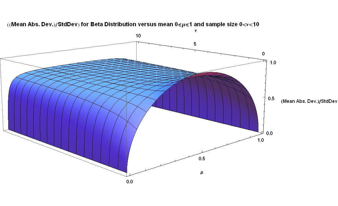 Ratio of Mean Abs. Dev. to Std.Dev. Beta distribution vs. sample size (nu) from 0 to 10 and vs. mean - J. Rodal